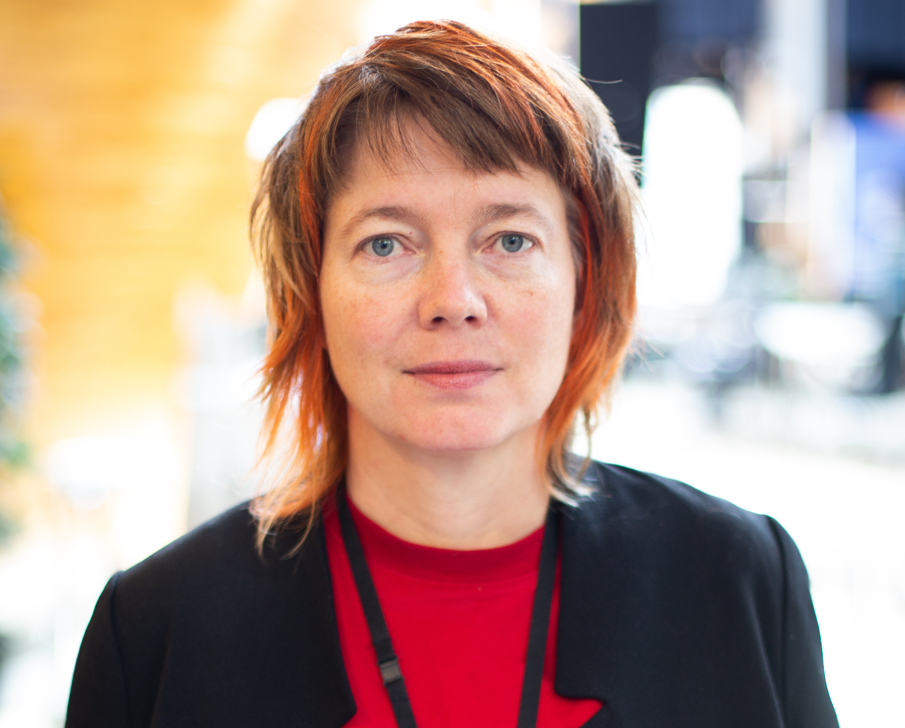 6th anniversary of the assassination of Pavlos Fyssas by the neo-nazis of Golden Dawn.